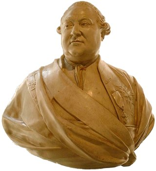 Pierre André de Suffren, Statue in the Museum of the Navy, Toulon, France